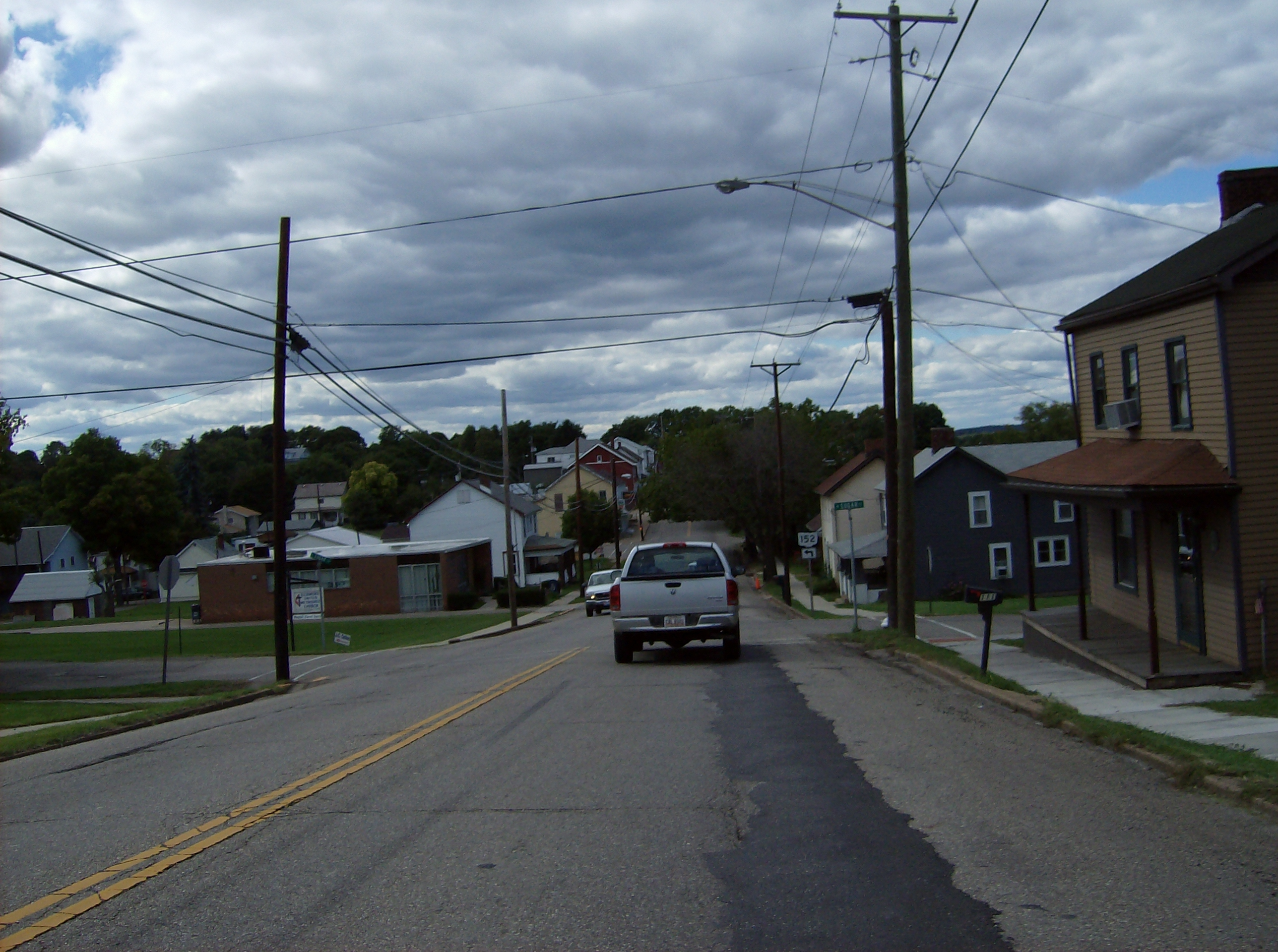 Descending from the east into the center of the village of Richmond, Ohio, United States, along the concurrent State Routes 43 and 152.